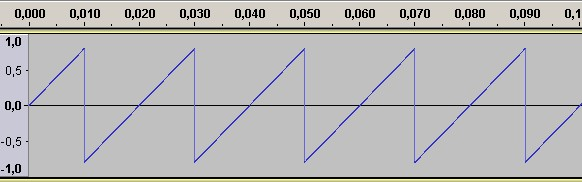 50Hz Sawtooth wave norsk: 50Hz sagtann-spenning